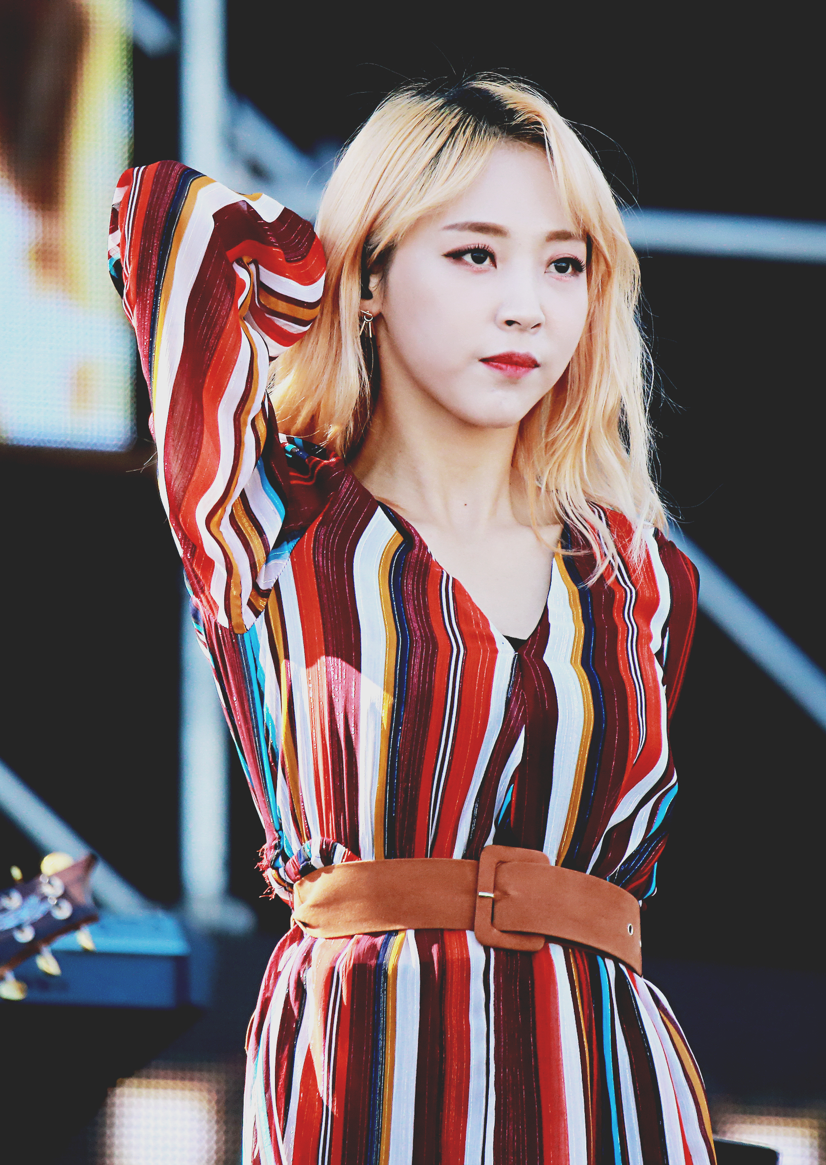 180519_마마무